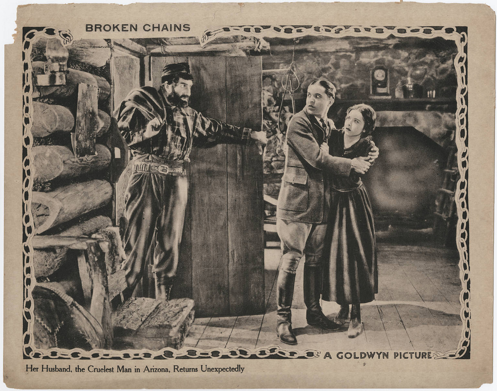 Lobby card for the film Broken Chains (1922) with Ernest Torrence finding Malcolm McGregor holding Colleen Moore. Caption: "Her husband, the cruelest man in Arizona, returns unexpectedly." Approximately 28 x 35.5 cm. Part of the Western silent films lobby card collection, 1912-1930, Yale Collection of Western Americana, Beinecke Rare Book & Manuscript Library, Yale University. Bibliographic Record Number 2019839. View our Record: Permalink